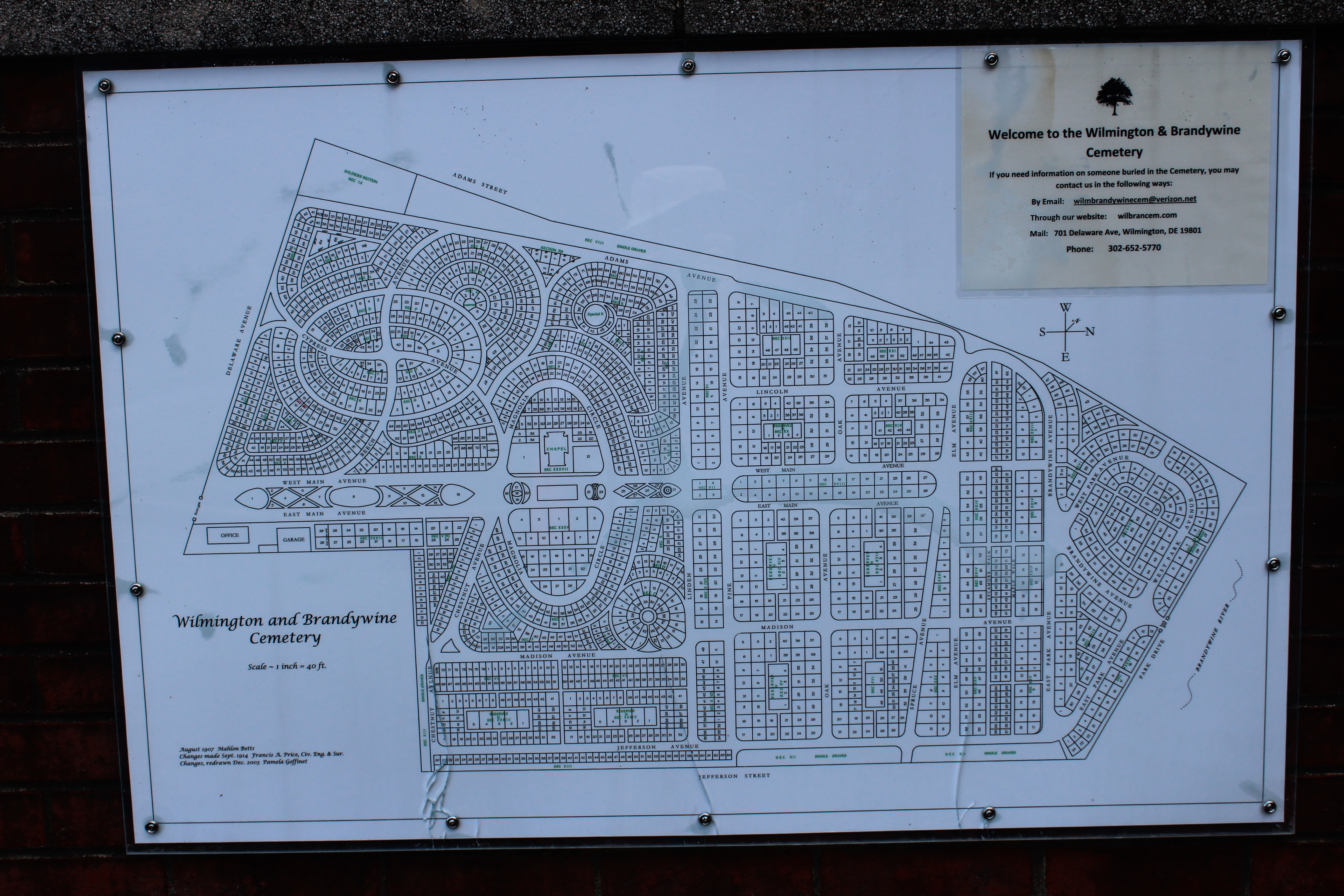 Map of Wilmington and Brandywine Cemetery posted near entrance to the cemetery. Photo taken August 2019.